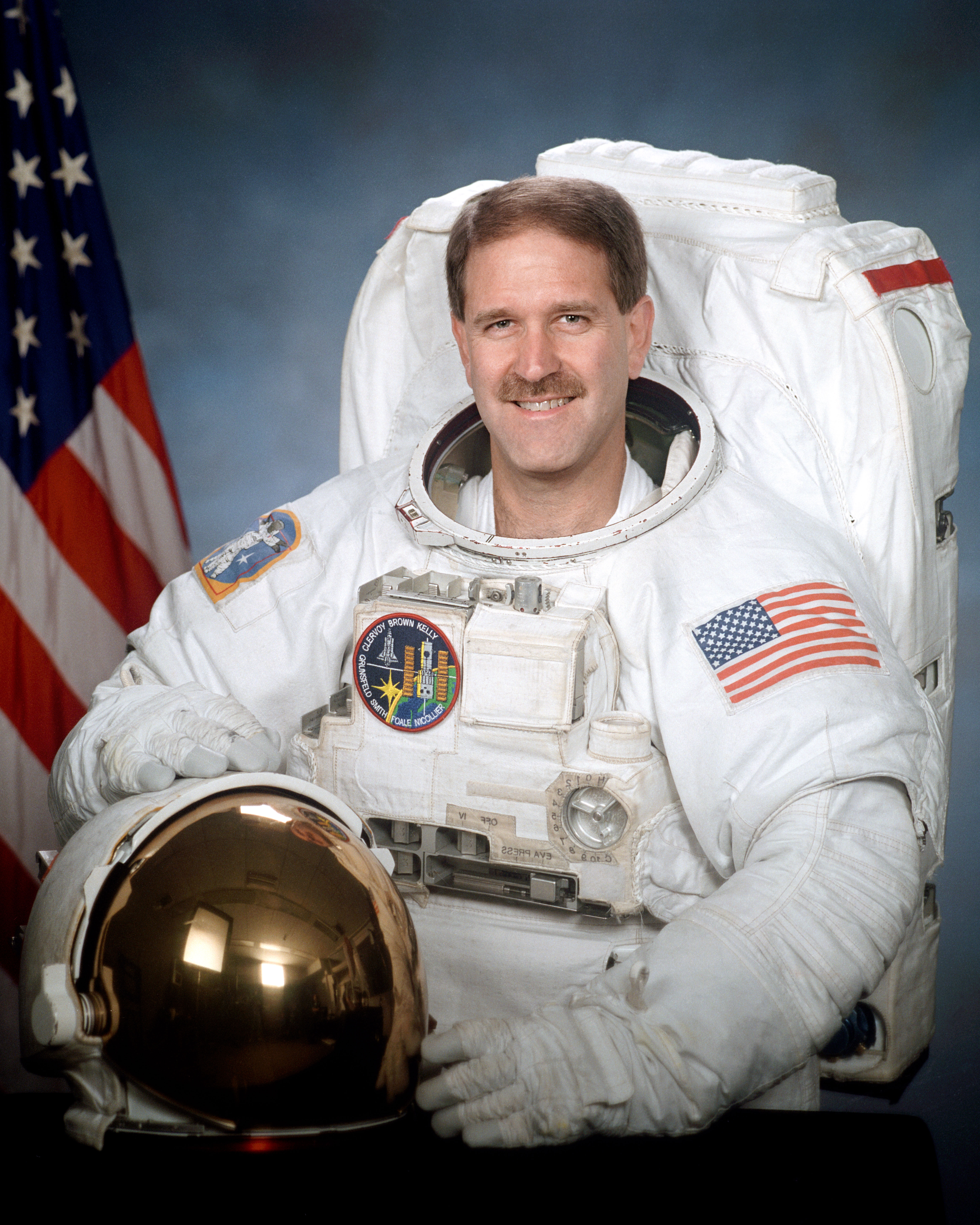 Astronaut John M. Grunsfeld, mission specialist.